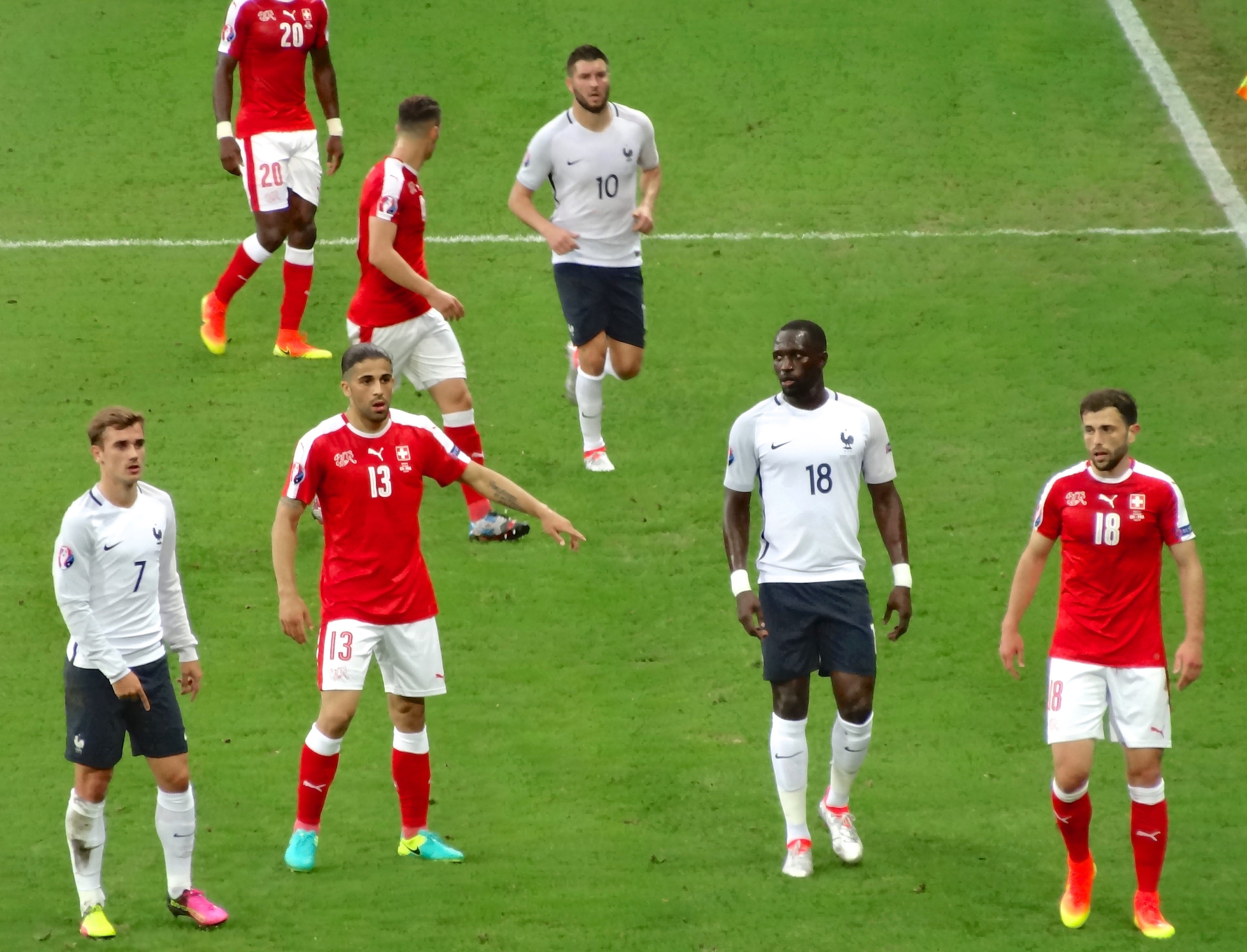 Suisse - France 2016